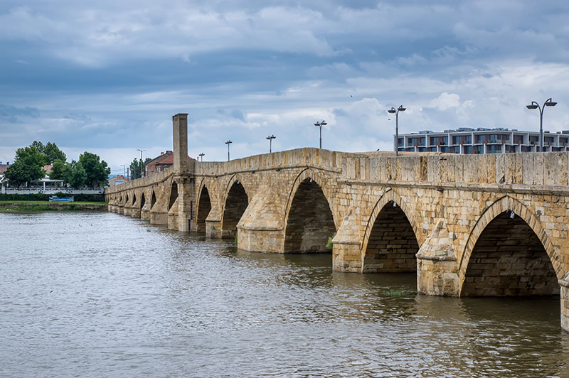 Mustafa Pasha Bridge, Svilengrad